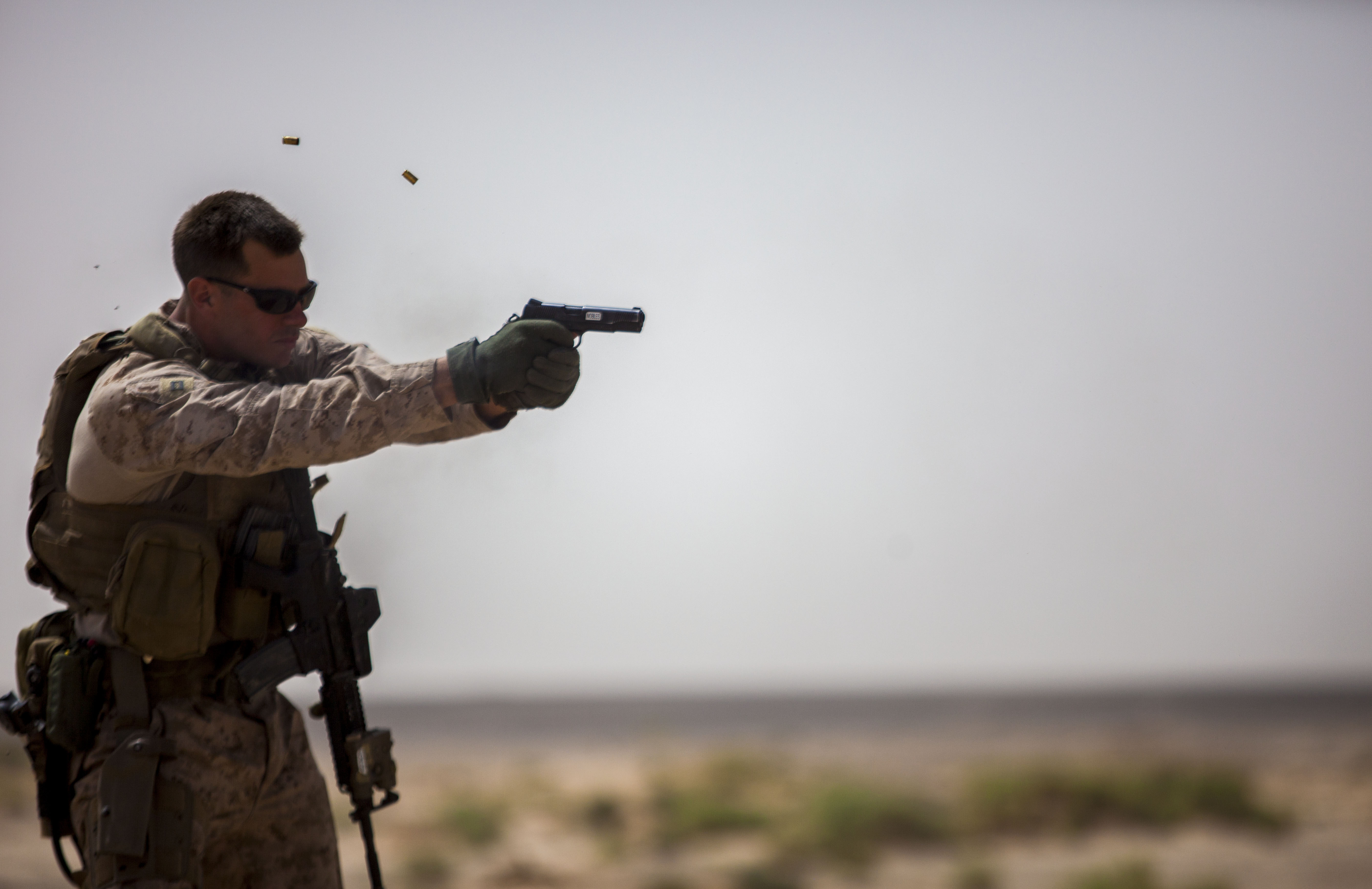 A U.S. Marine with the 26th Marine Expeditionary Unit's maritime raid force fires an M1911 .45-caliber pistol at a range in Jordan June 9, 2013, during Eager Lion 2013. Eager Lion is a U.S. Central Command-directed exercise designed to strengthen military-to-military relationships between the U.S. and Jordan.